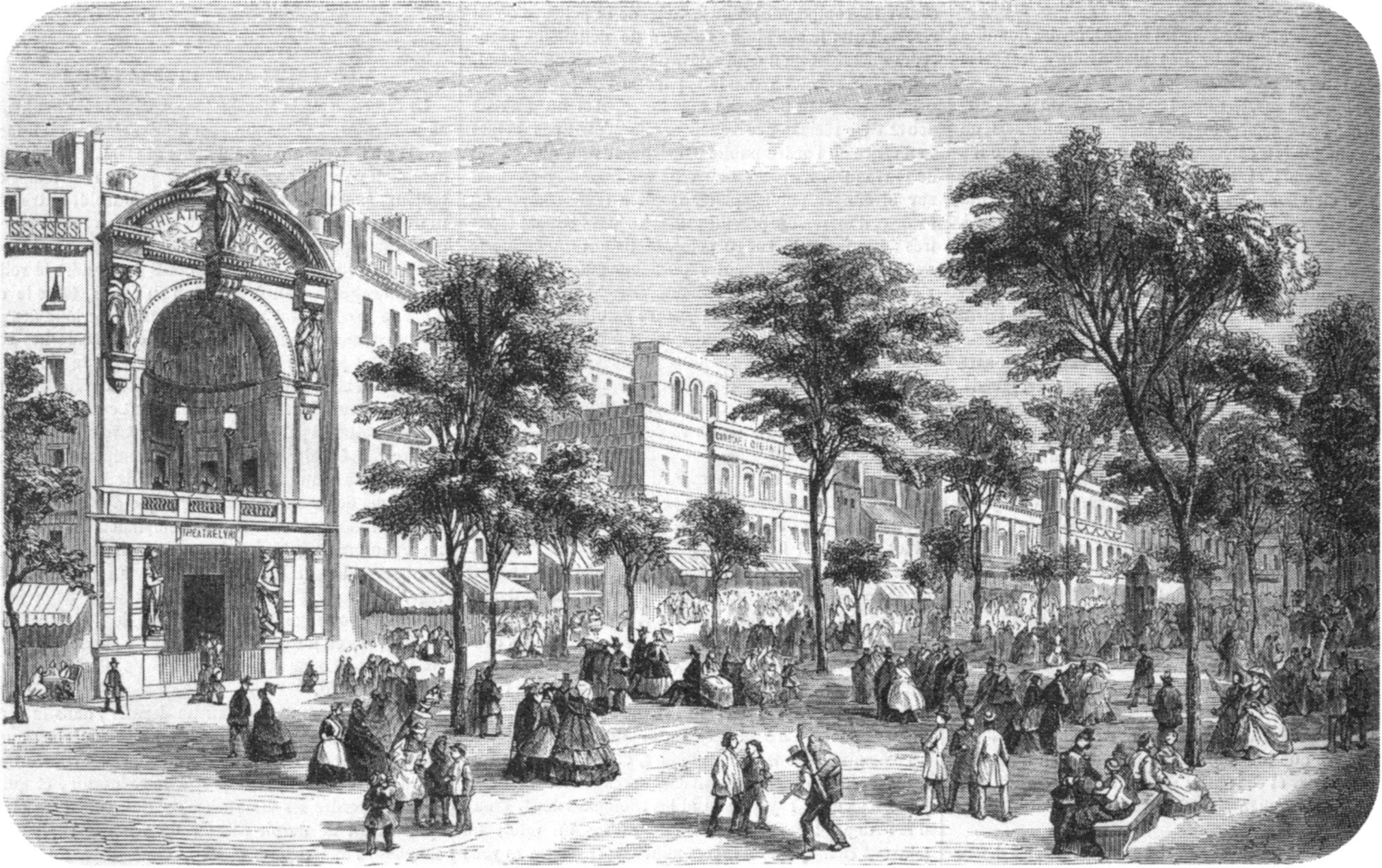 The Théâtre Historique on the Boulevard du Temple, not long before the theatres on boulevard were demolished during Haussmann's renovation of Paris.